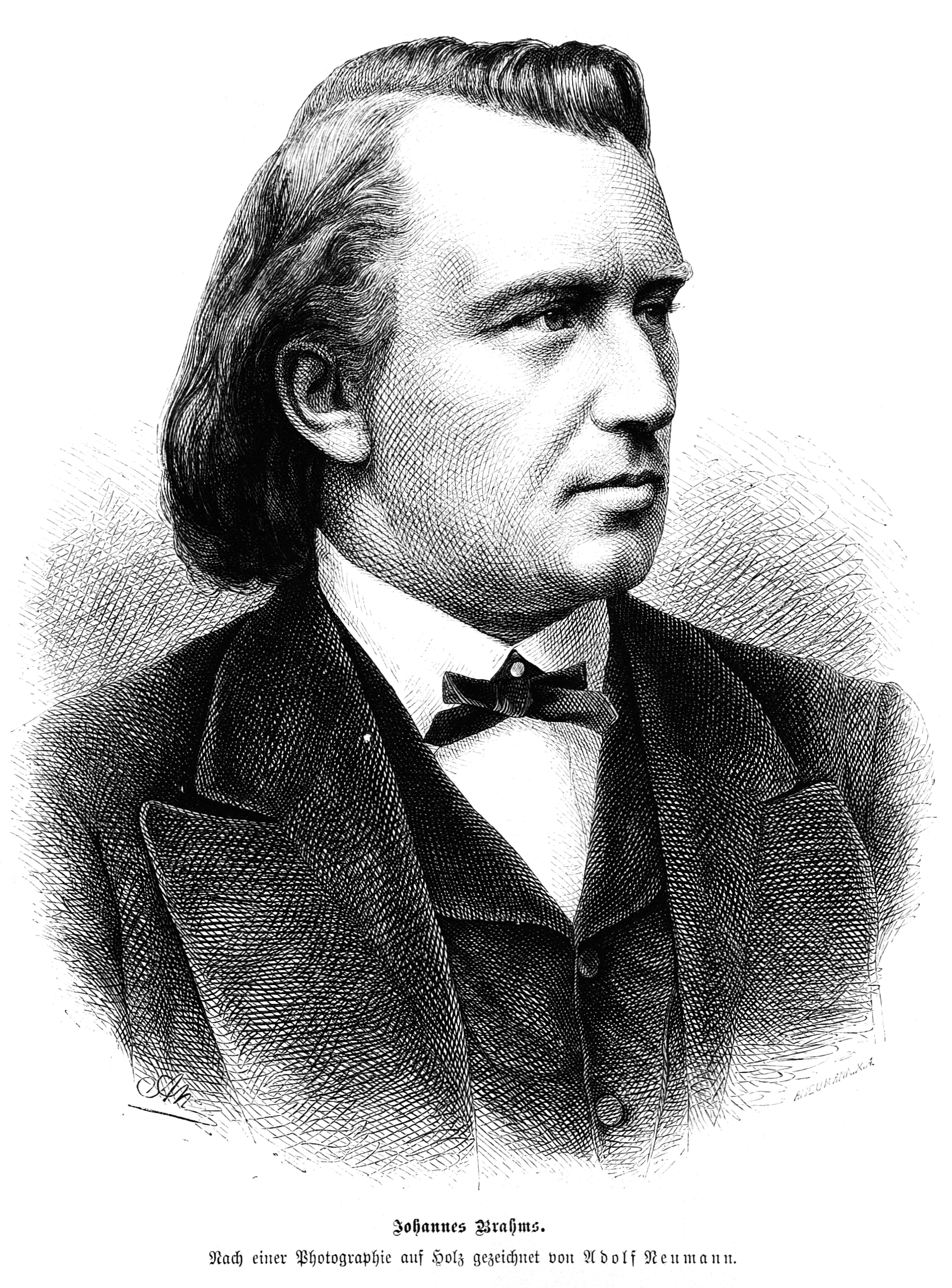 caption: "Category:Johannes Brahms.Nach einer Photographie auf Holz gezeichnet von Adolf Neumann."